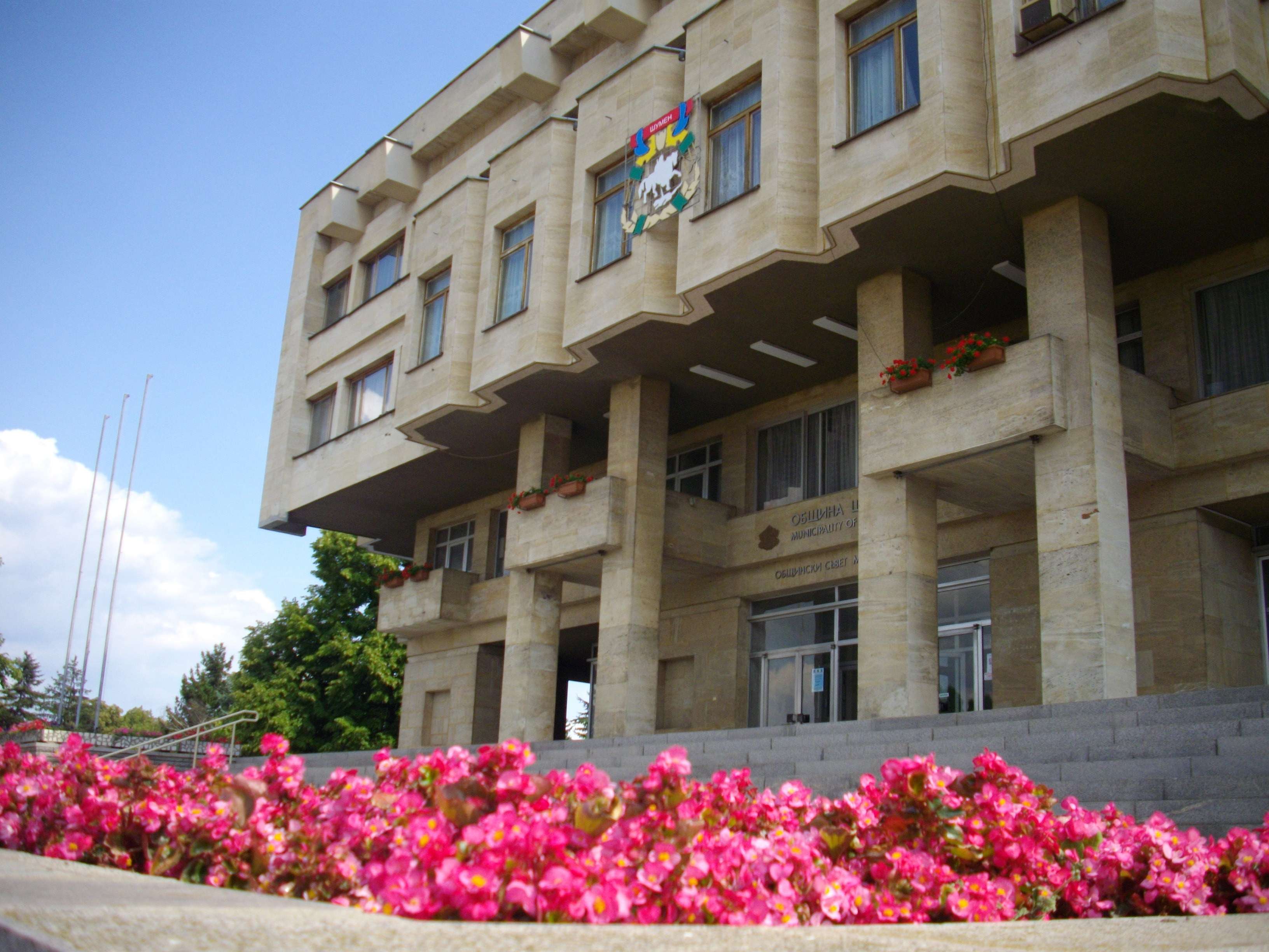 Община Шумен и Общински съвет - Шумен